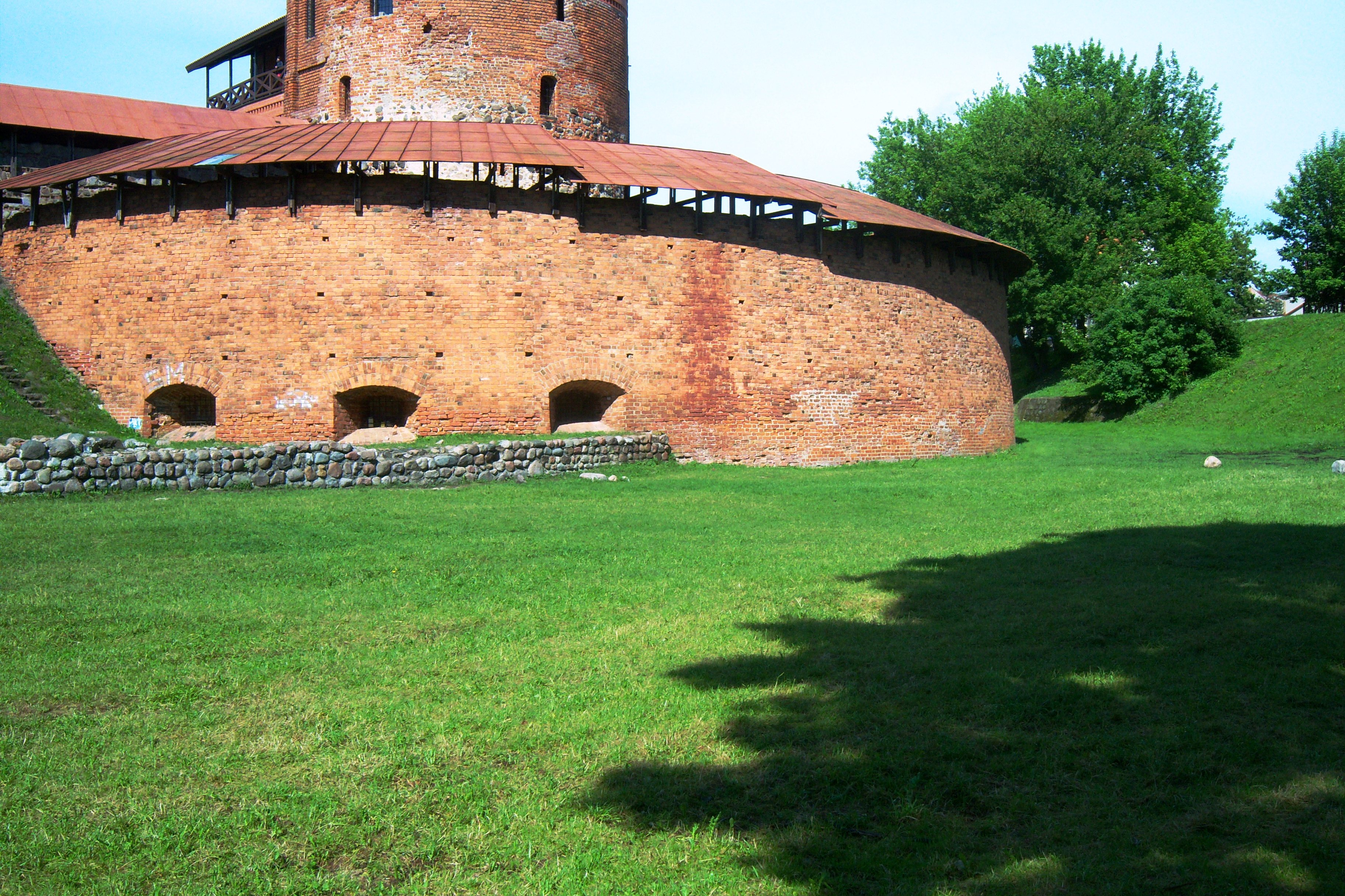 Bastion by Kaunas Castle, Lithuania.